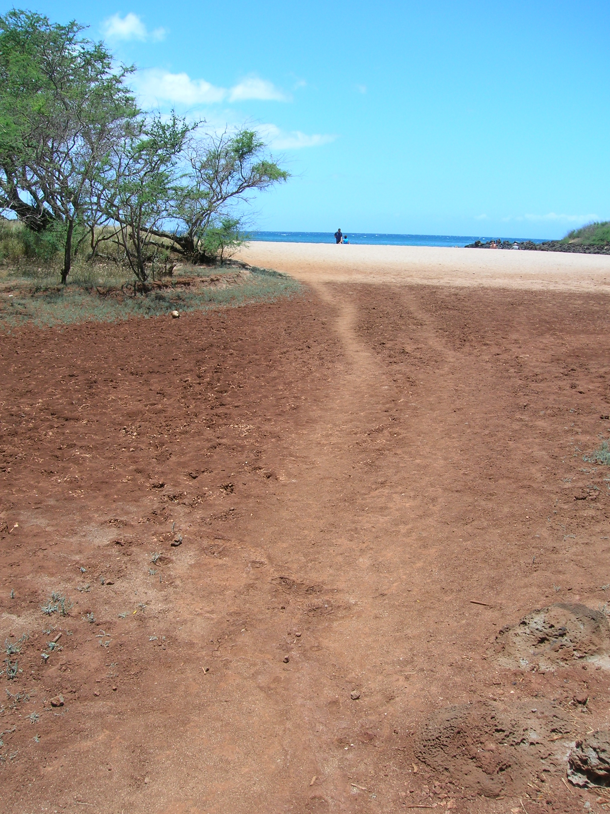 Location: Molokai, Kapukahehu beach